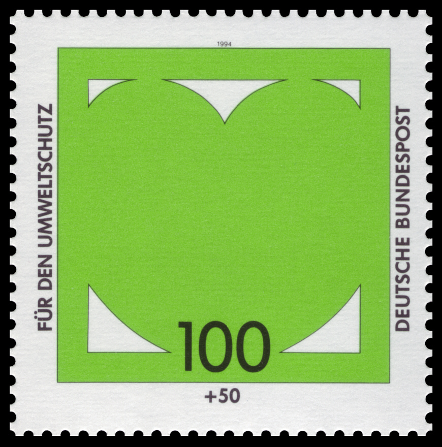 Environmental protection